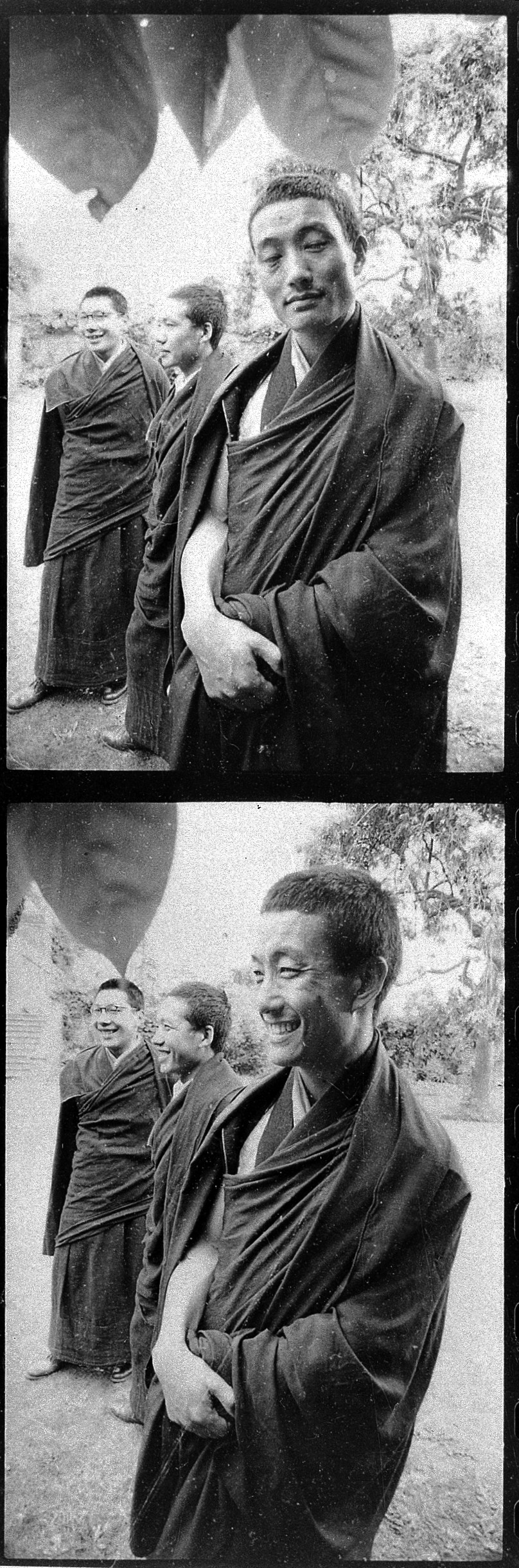 Two portraits of Jampal Kunzang Rinpoche Rechung Wellcome Images Keywords: Jampal Kunzang Rinpoche Rechung